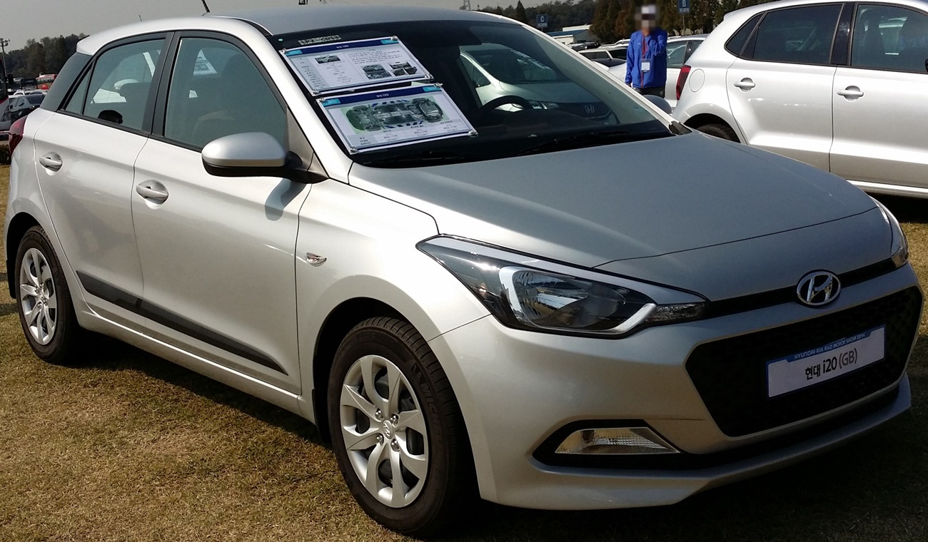 Hyundai i20